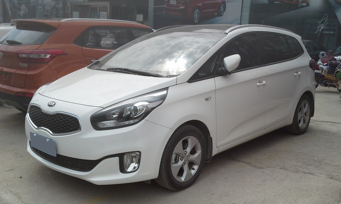 Kia Carens RP photographed in Zhengzhou, Henan province, China.